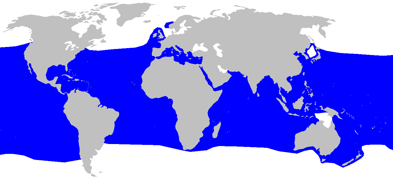 Distribution map for Isurus oxyrinchus